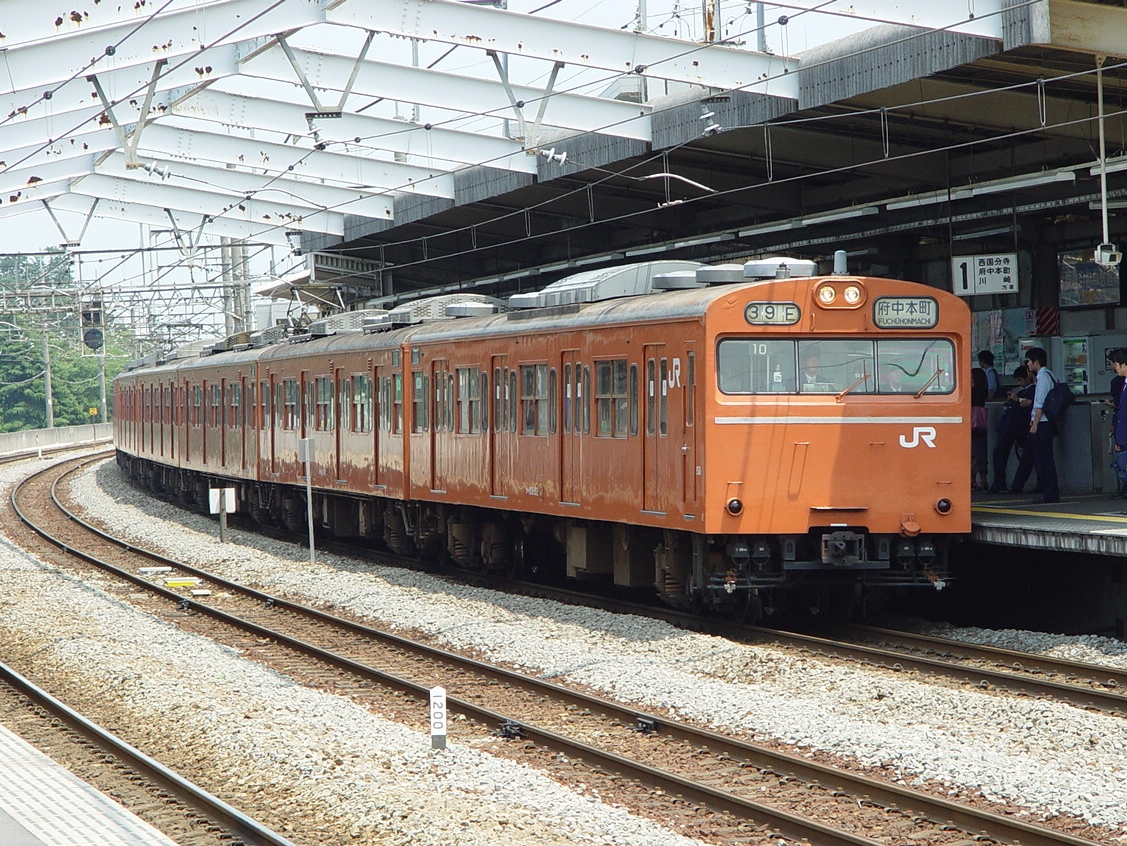 A JR East 103 series EMU on a Musashino Line service at Niiza Station